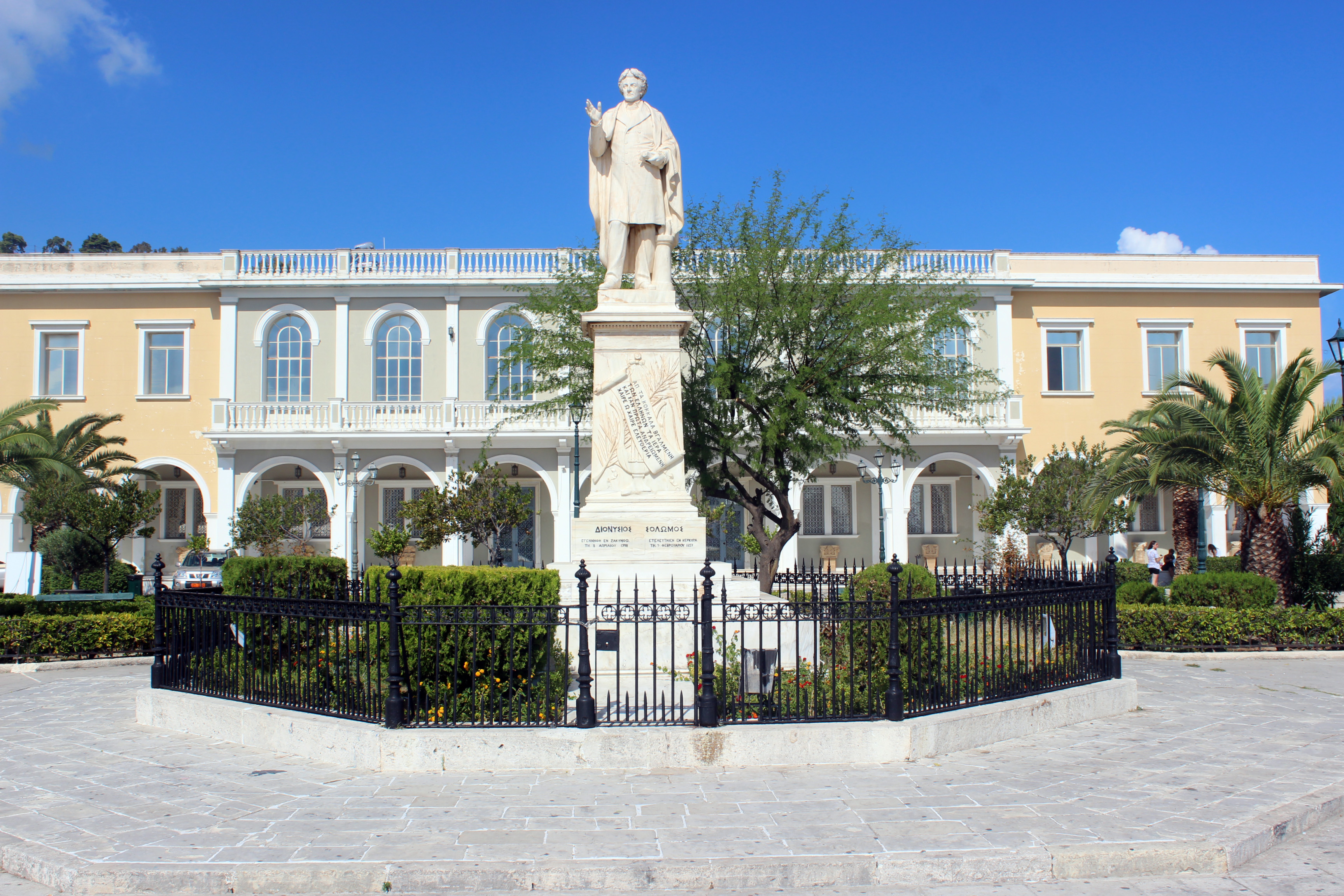 Dionysios Solomos statue, at the “Platía Solomoú”, in the background the Byzantine Museum, Zakynthos-City, Zakynthos, Greek Ionian Islands